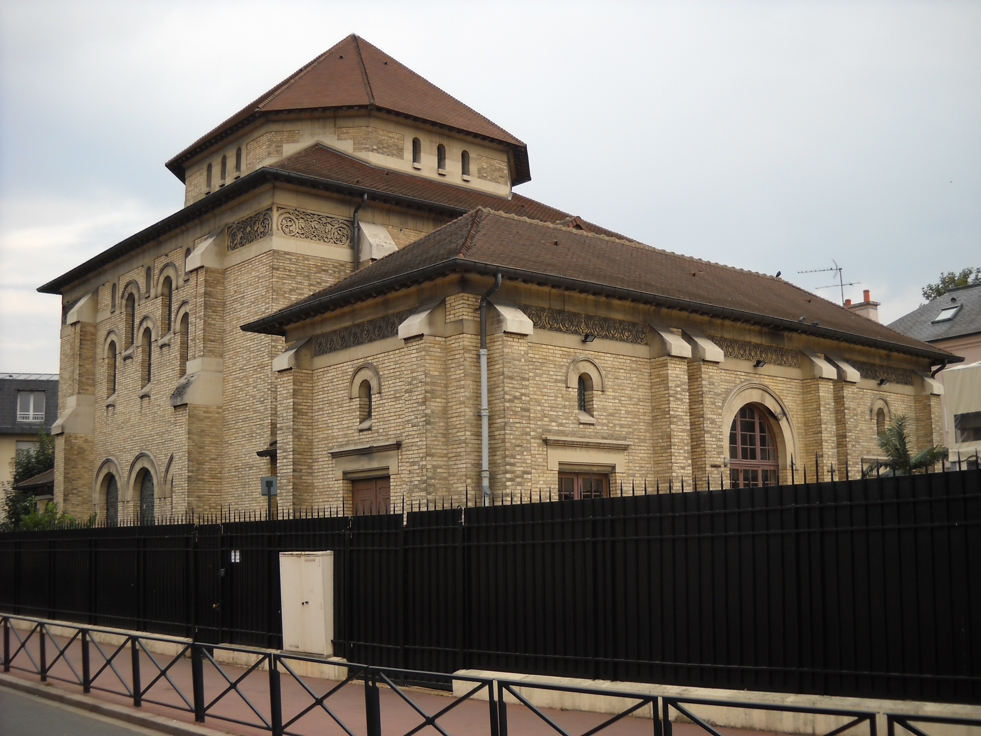 Synagogue in Boulogne-Billancourt, Hauts-de-Seine, France.